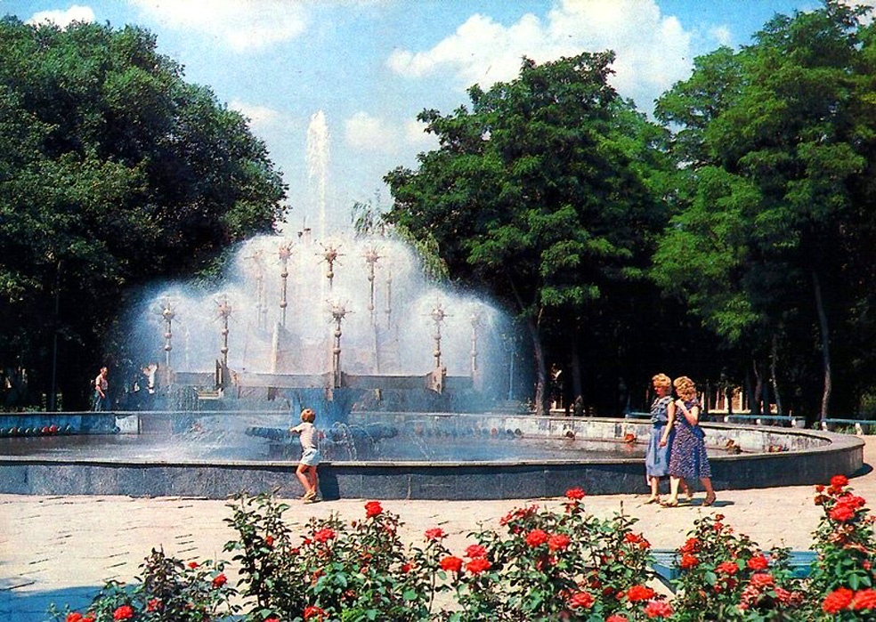 Youth Guard Park, Ukraine